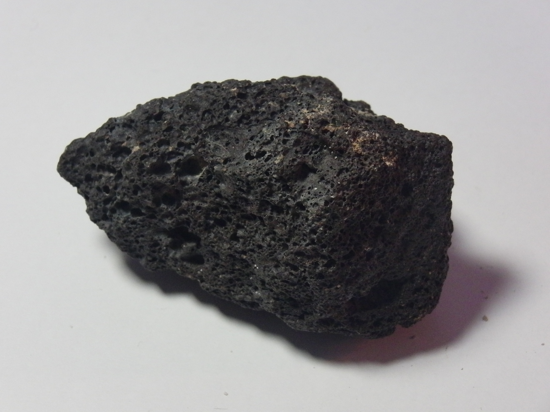 Tephra